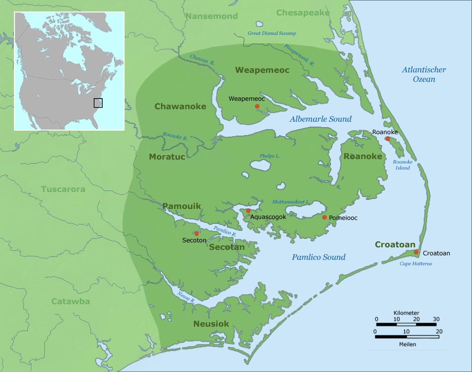 Tribal territories of North Carolina Algonquin